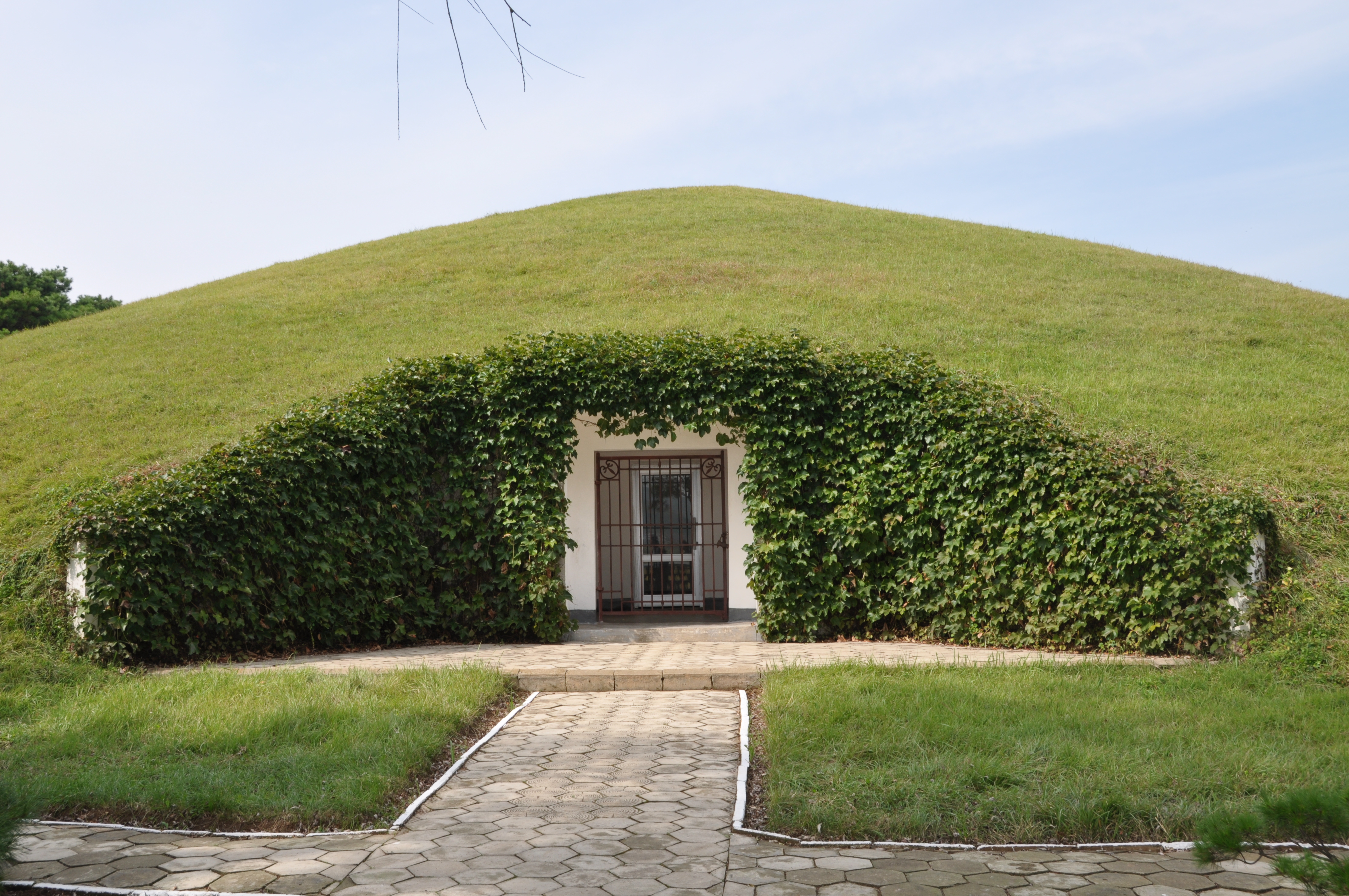 This is a UNESCO World Heritage Site due to the well preserved murals within. However, it costs 100 Euros to see them!